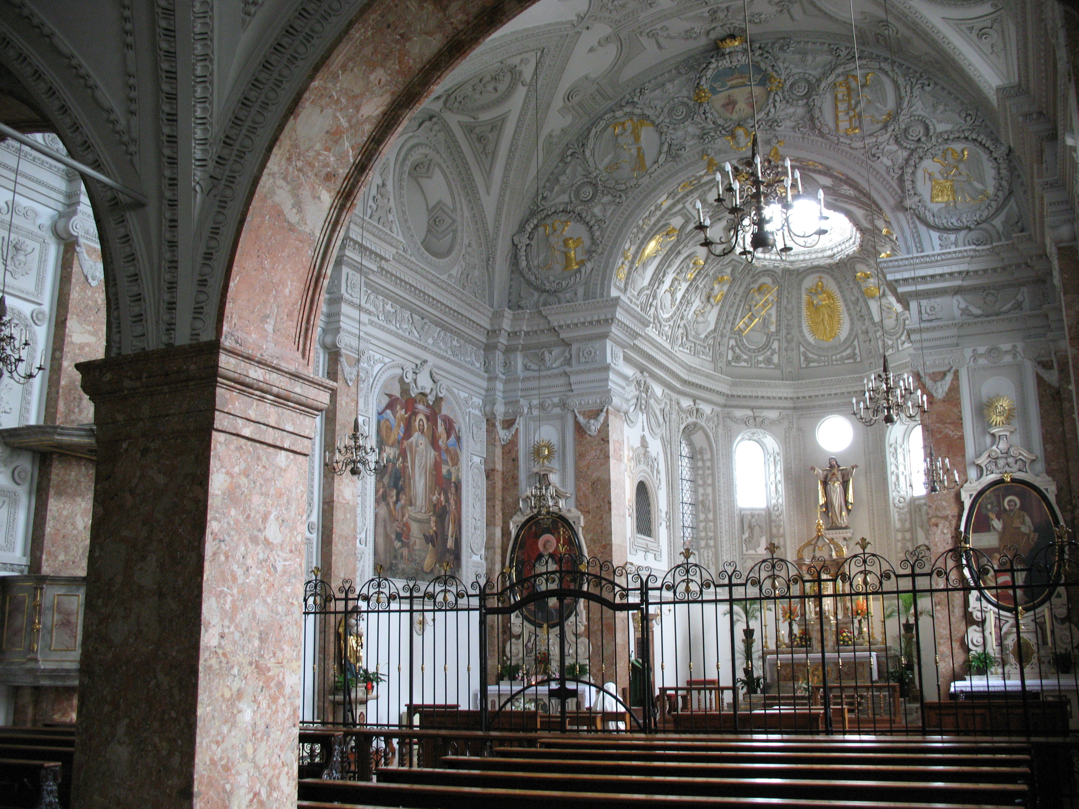 Church of Our Lady, Hall in Tirol, Austria